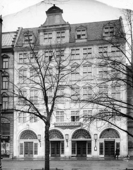 The Opera Comique, constructed in 1918.